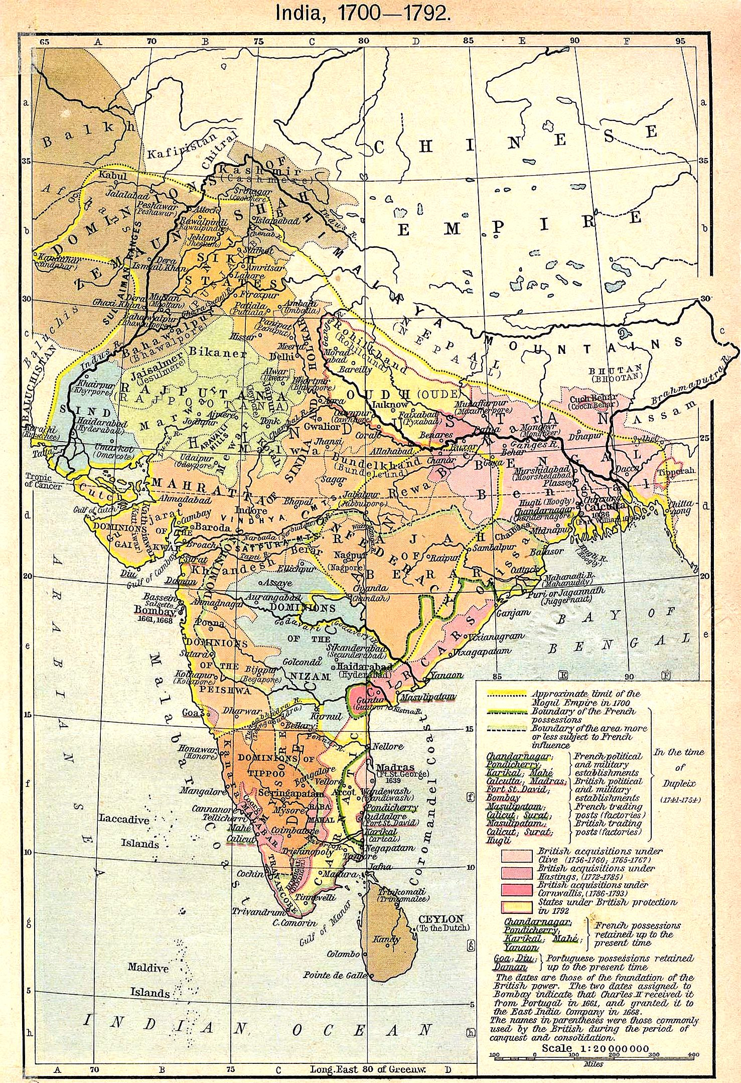 A map of India during 1700–1793 AD